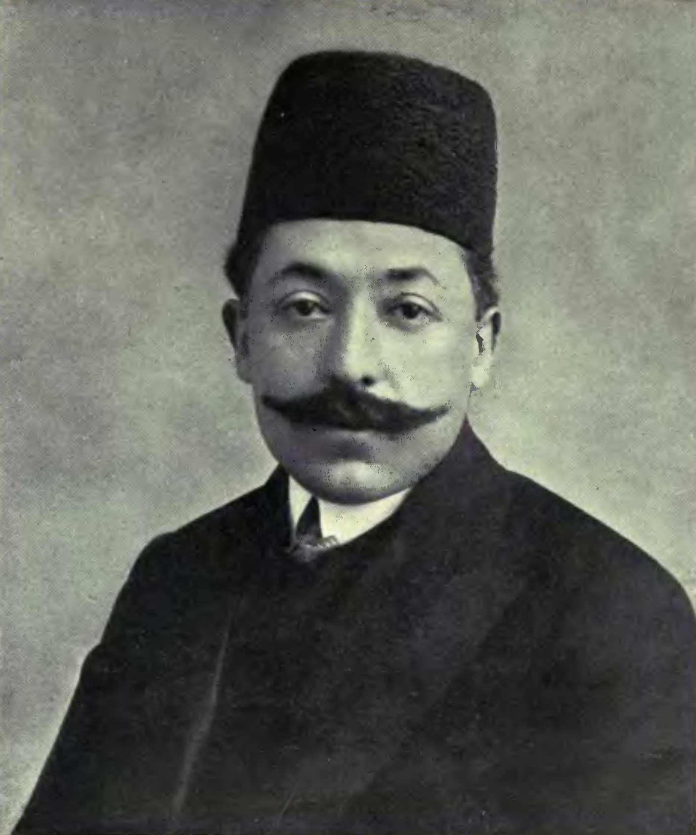 Ahmad Qavām (1876-1955), aka Qavām os-Saltaneh, or Qavām al-Saltaneh, Iranian politician and Prime Minister for seven times.